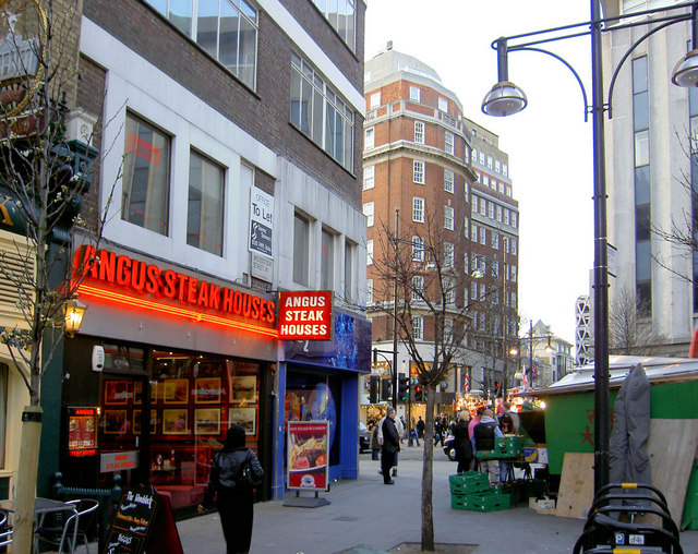 Aberdeen Angus Steak Houses Original description: Angus Steak House on Woodstock Street Junction with Oxford Street.